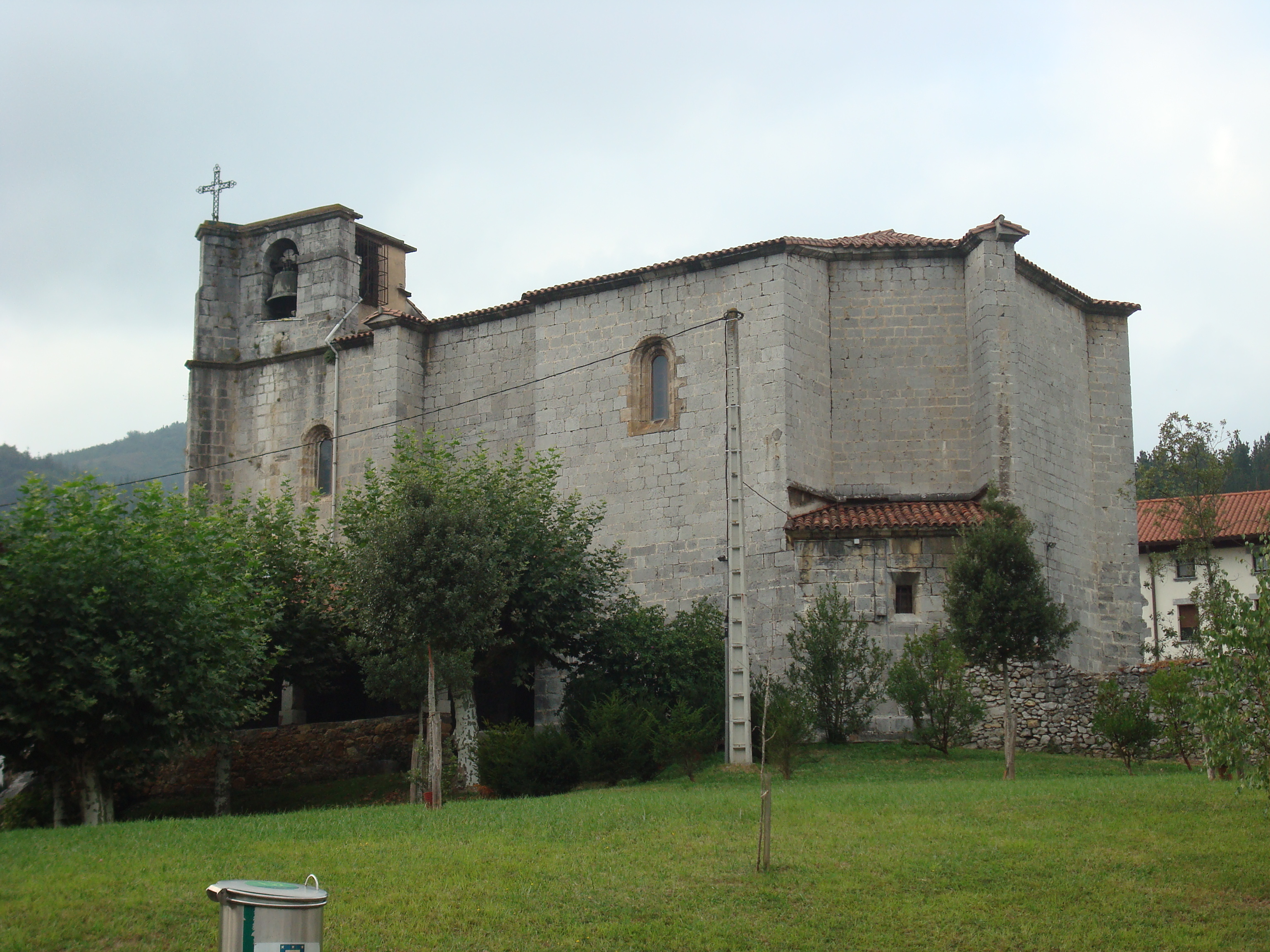 General view of the San Martín's church in Soravilla